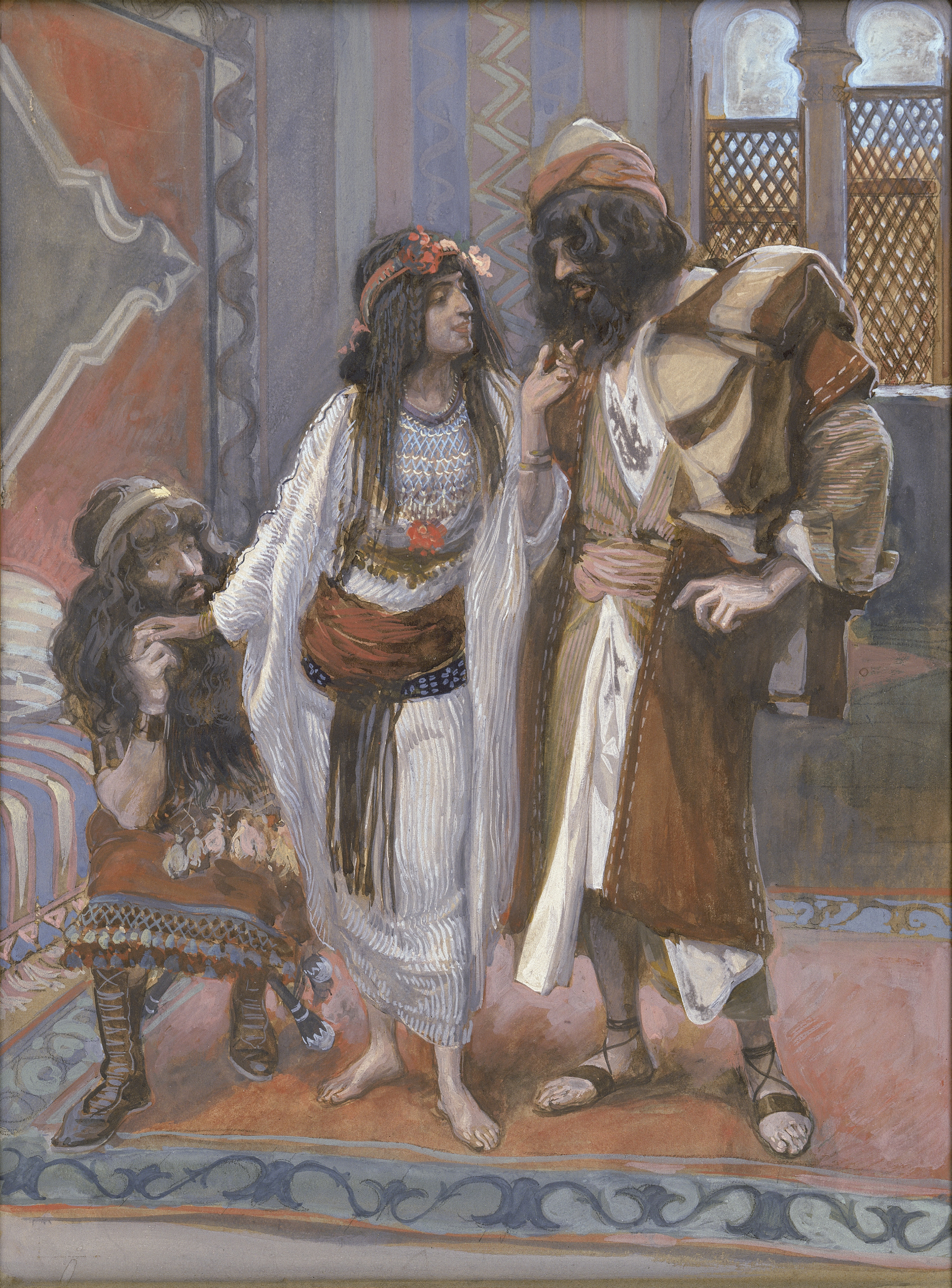 The Harlot of Jericho and the Two Spies, c. 1896-1902, by James Jacques Joseph Tissot (French, 1836-1902) or follower, gouache on board, 9 1/16 x 6 5/8 in. (23.1 x 16.9 cm), at the Jewish Museum, New York